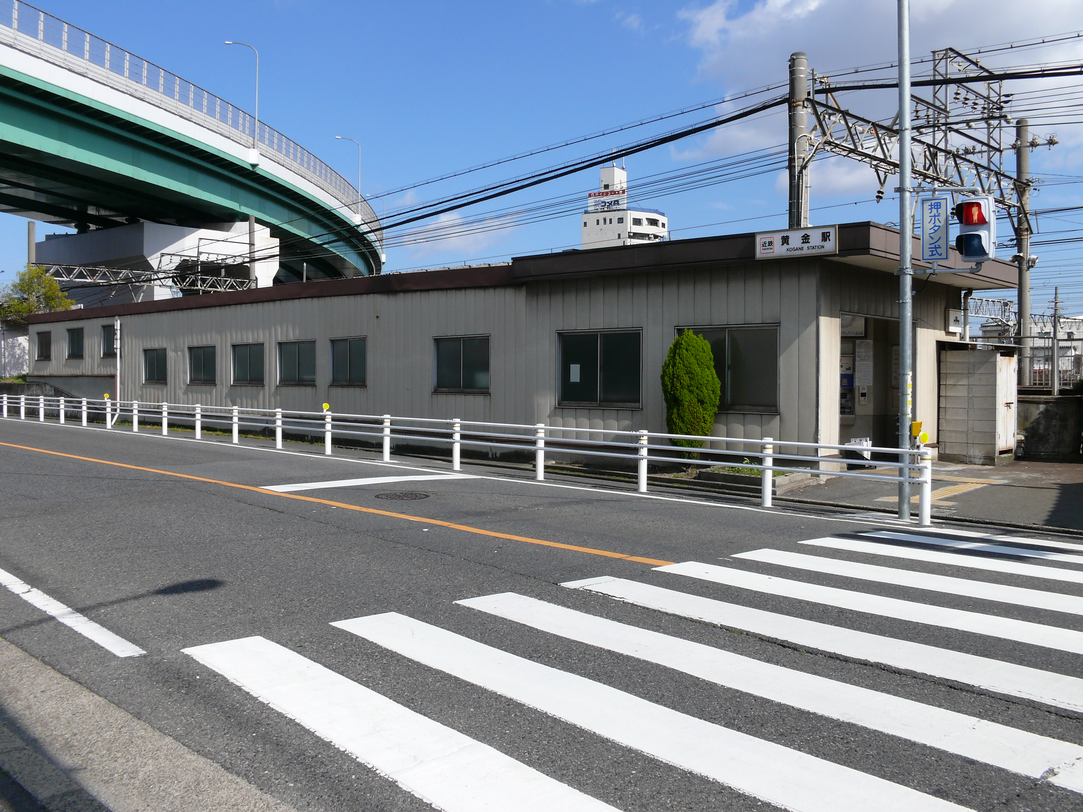 Kintetsu of Kogane Station.